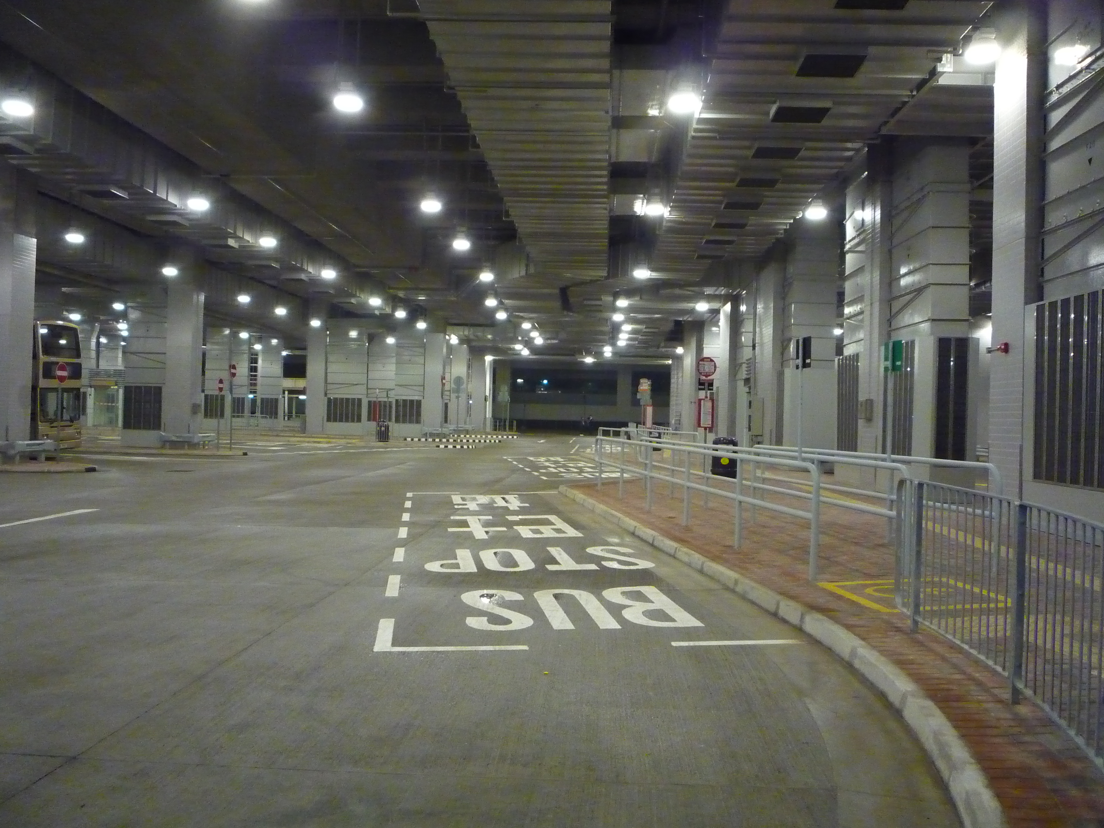 Tuen Mun Station Public Transport Interchange